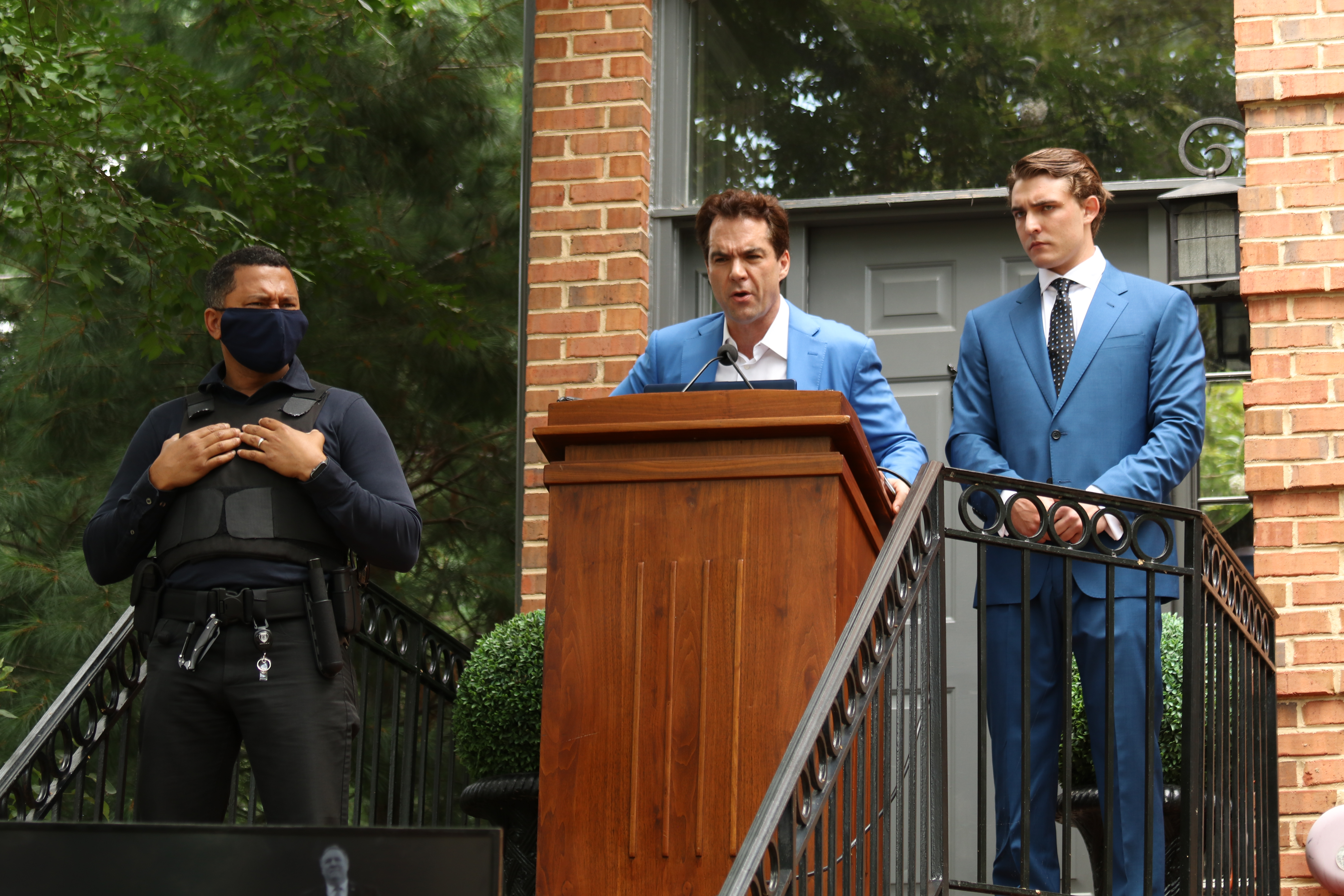 August 6, 2020 press conference by Jacob Wohl and Jack Burkman, denying allegations of kidnapping against Wohl by Merritt Corrigan ([1])